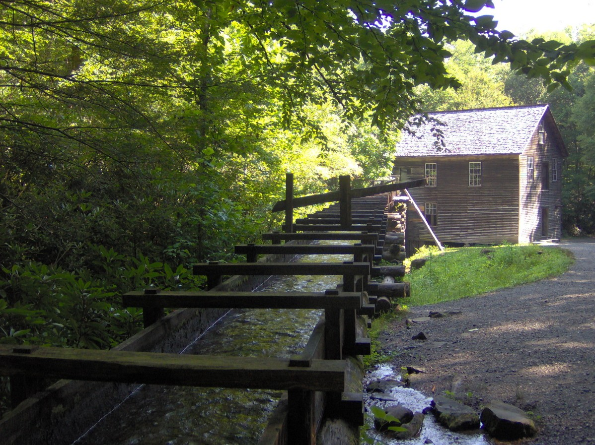 Mingus Mill and flume, near Oconaluftee in the Great Smoky Mountains. The flume transports water from Mingus Creek to the mill's turbine. The mill was constructed in 1886 by Sevier County, Tennessee millwright Sion Thomas Early for John Mingus, the son of the area's first Euro-American settler.